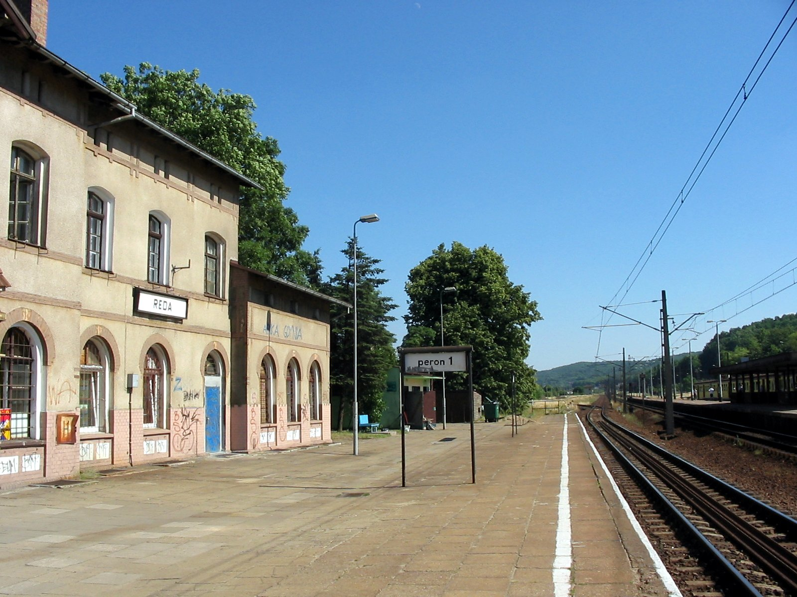 the train stop in Reda, Poland Kaszëbsczi: Ban w Rédze